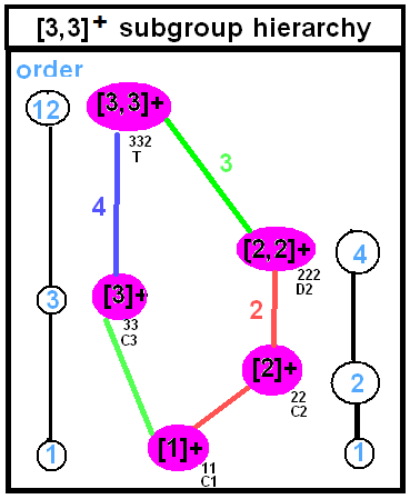 Tetrahedral symmetry diagram